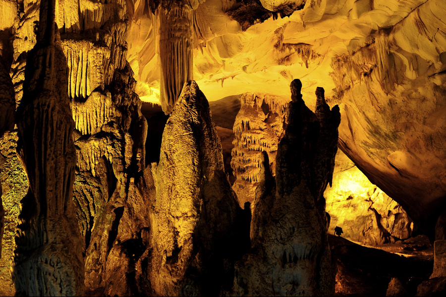 Dupnisa Cave, Igneada Kirklareli TURKEY